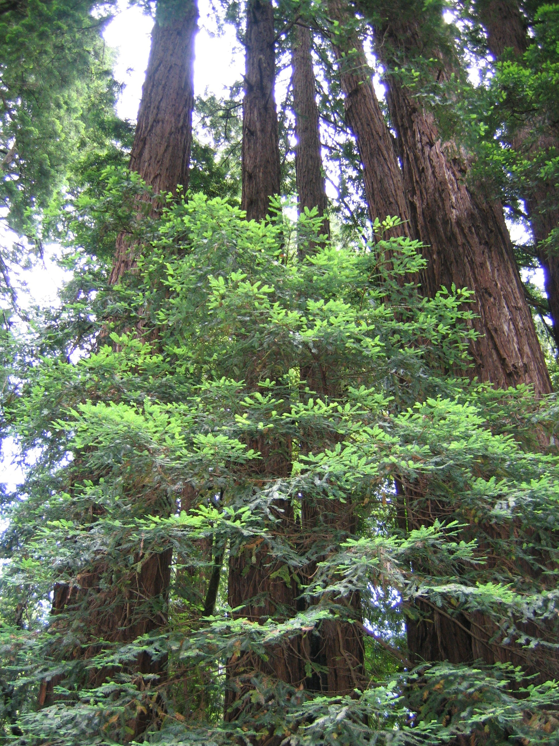 This ring of Coast Redwoods Sequoia sempervirens sprouted from the stump of an older tree. When we have a ring of trees like this, it's called, appropriately, a family ring. This picture was taken from the Muir Woods National Monument. It's a really nice place.